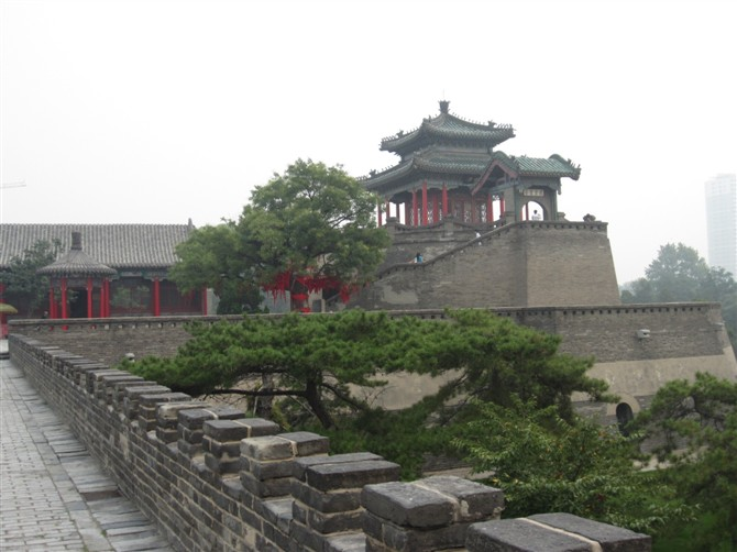 Wuling congtai